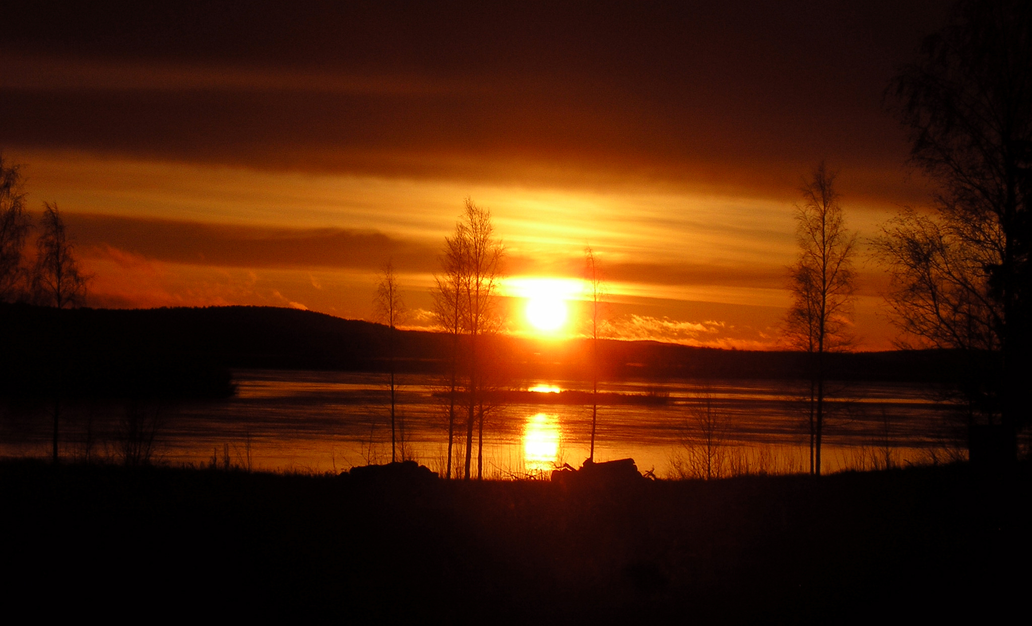 Tornevalley